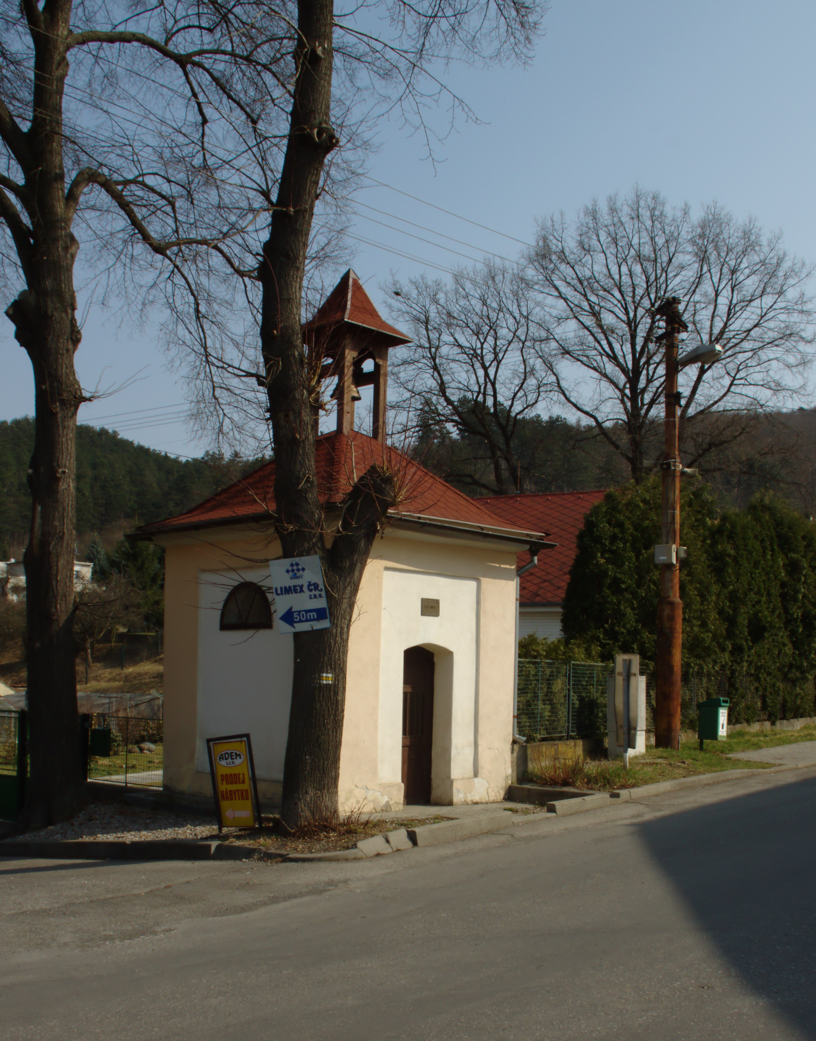 A chapel in Králův Dvůr-Popovice, near the centre of the village. Central Bohemian Region, CZ